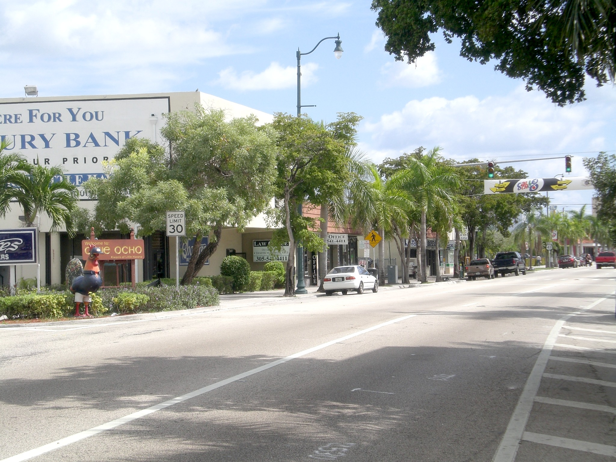 Digital photo taken by Marc Averette. Calle Ocho (SW 8th St) in Miami, Florida just east of SW 27th Avenue where it starts one-way eastbound. 3/7/2007.